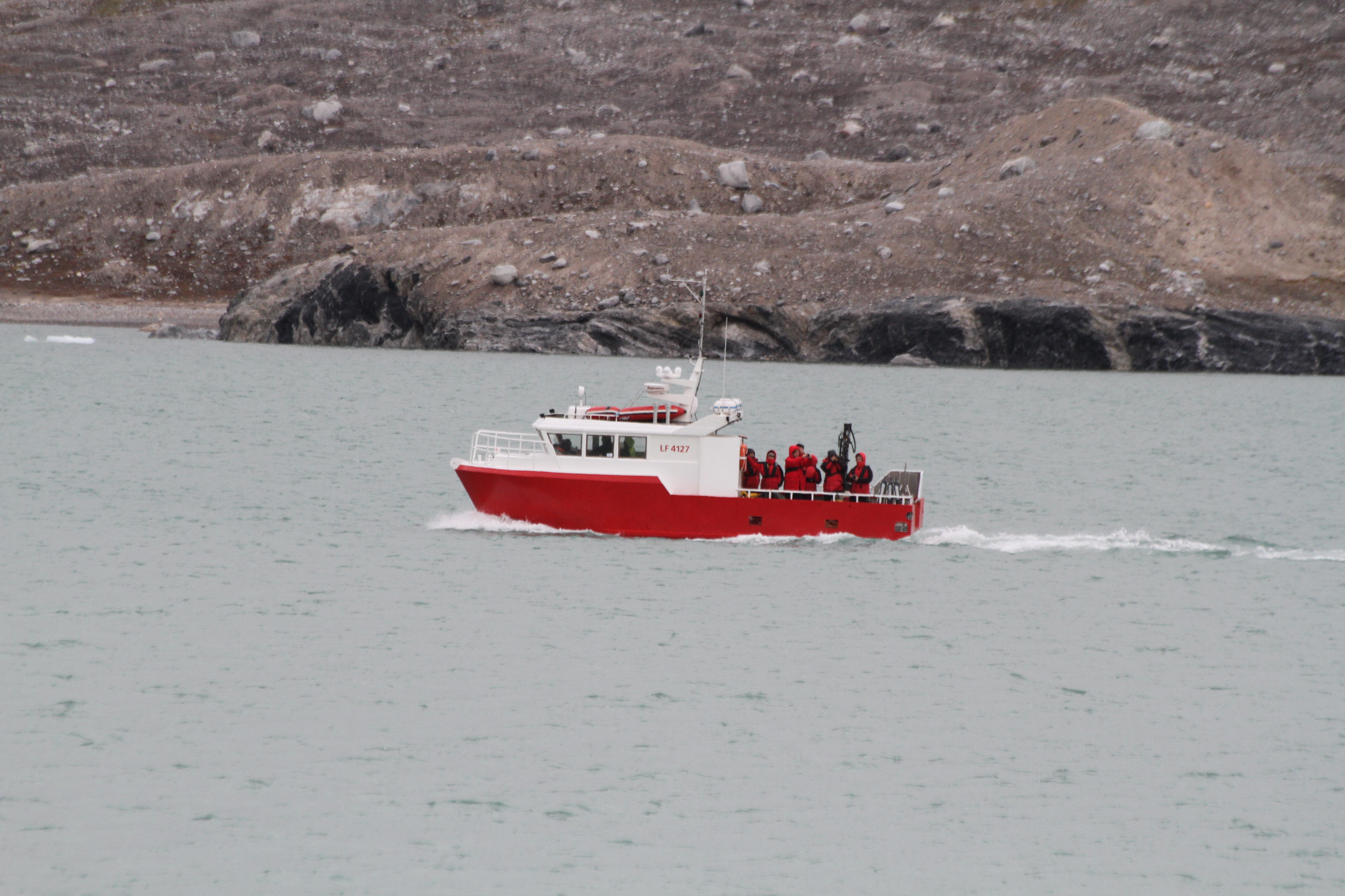 Research vessel from Ny-Ålesund in Blomstrandhamna, across the Kings Bay. Western Spitsbergen.